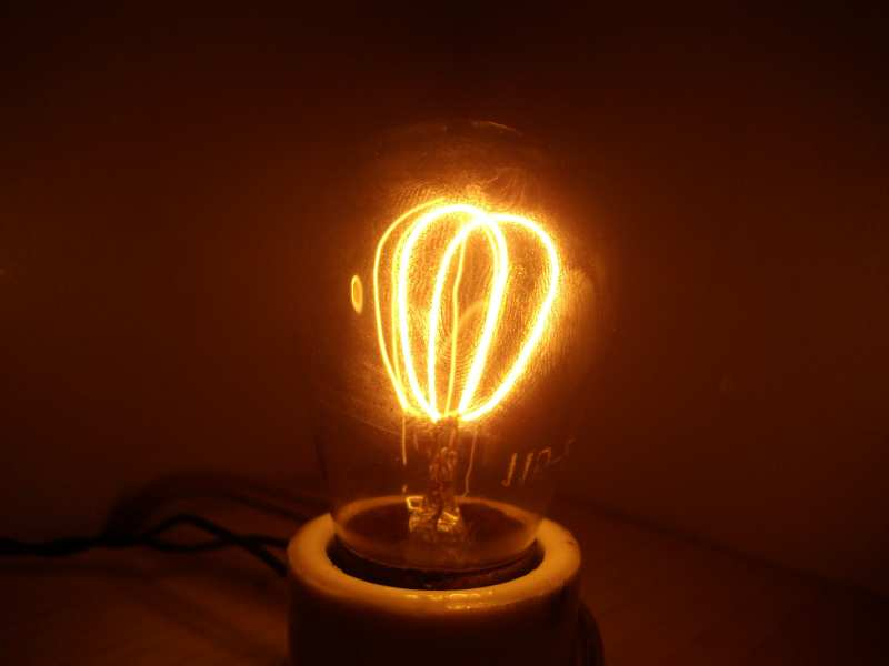 120V carbon filament lamp with standard Edison Screw base